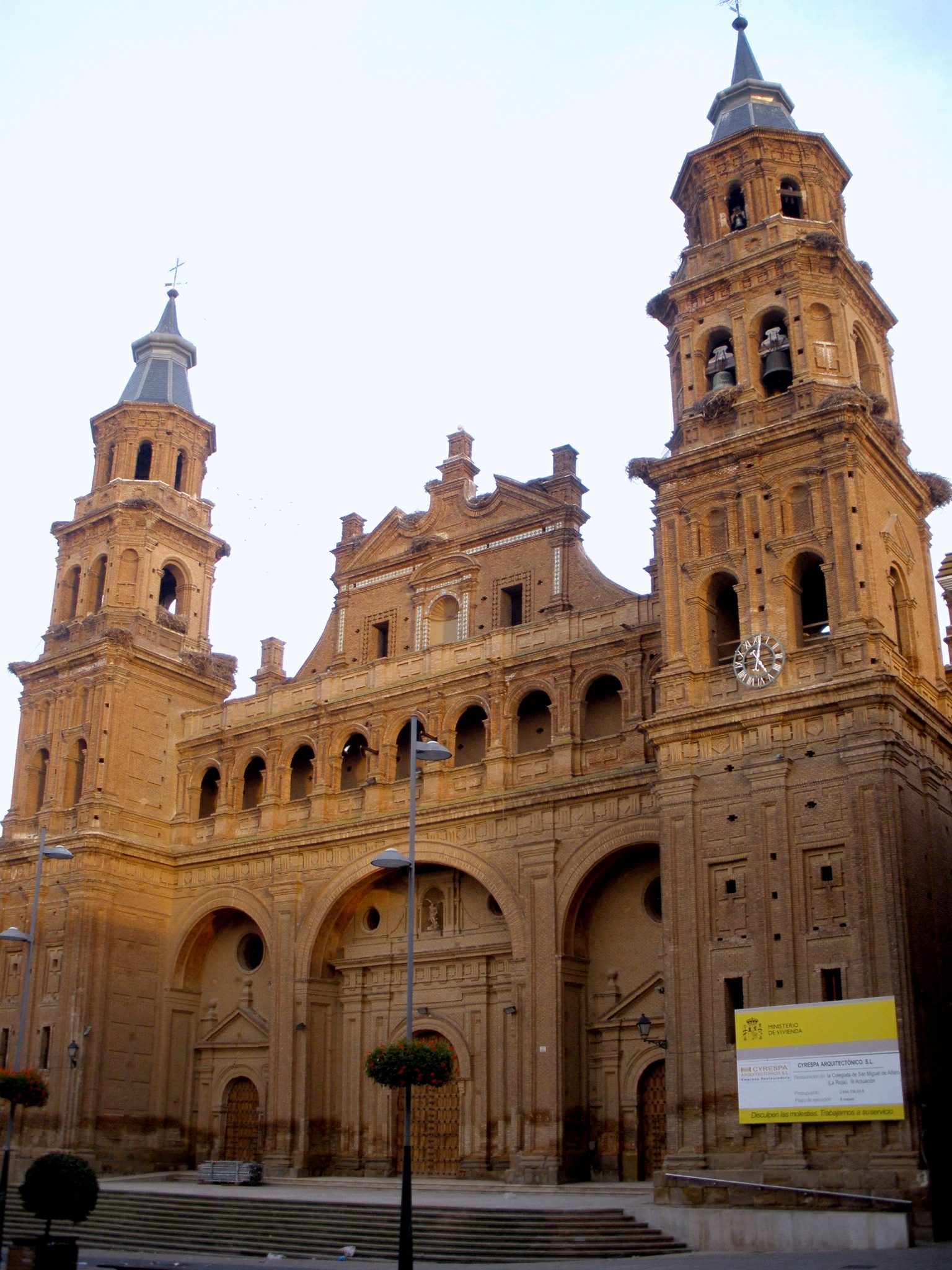 Colegiata de San Miguel, Alfaro (La Rioja, España)